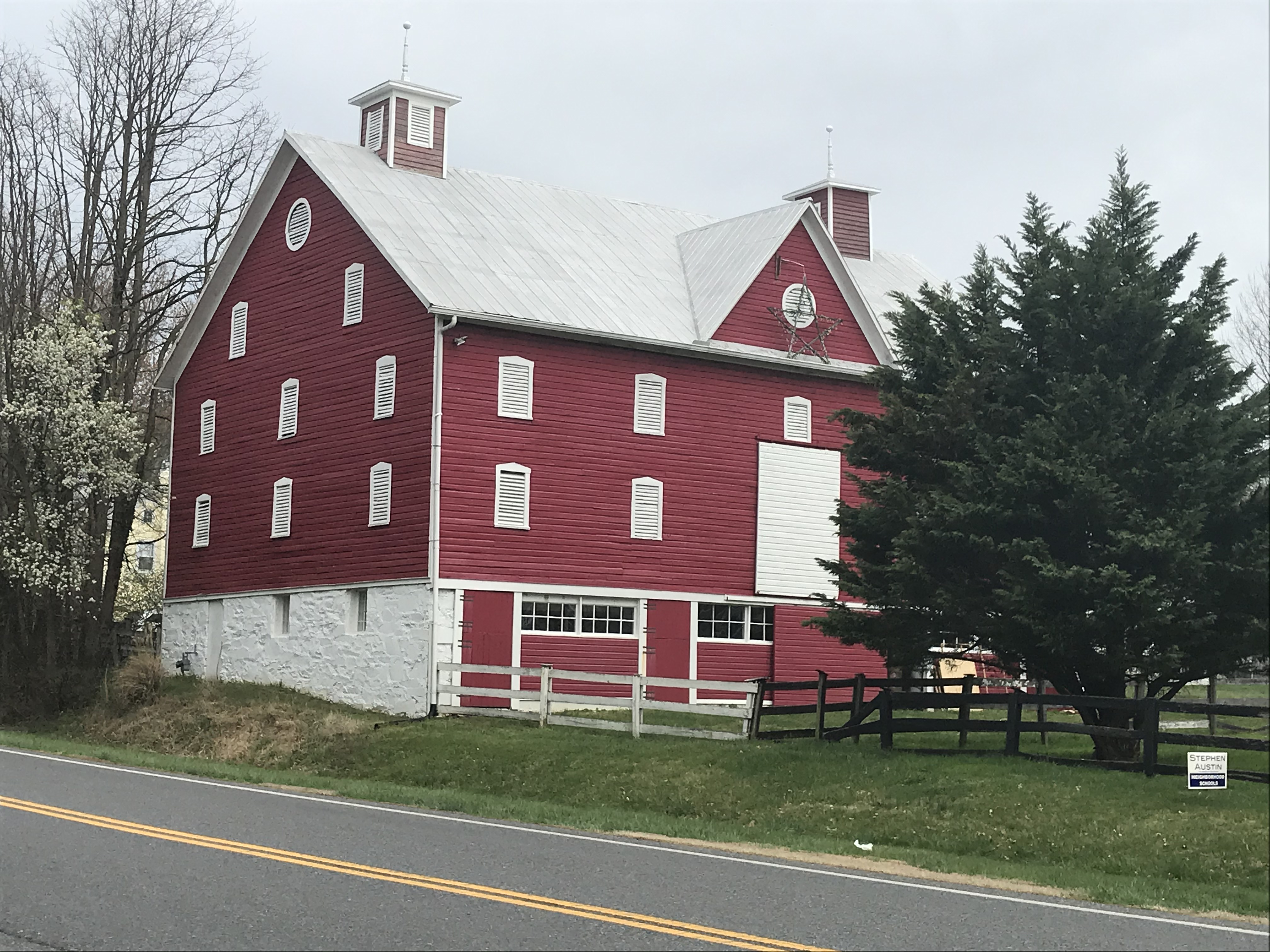 The Harrison and Ada Ward Farm was built around 1885 only a few miles from the C&O Canal. The barn is shown here, and it has uncommon architectural detail including a cross gable roof that is usually not found on barns.